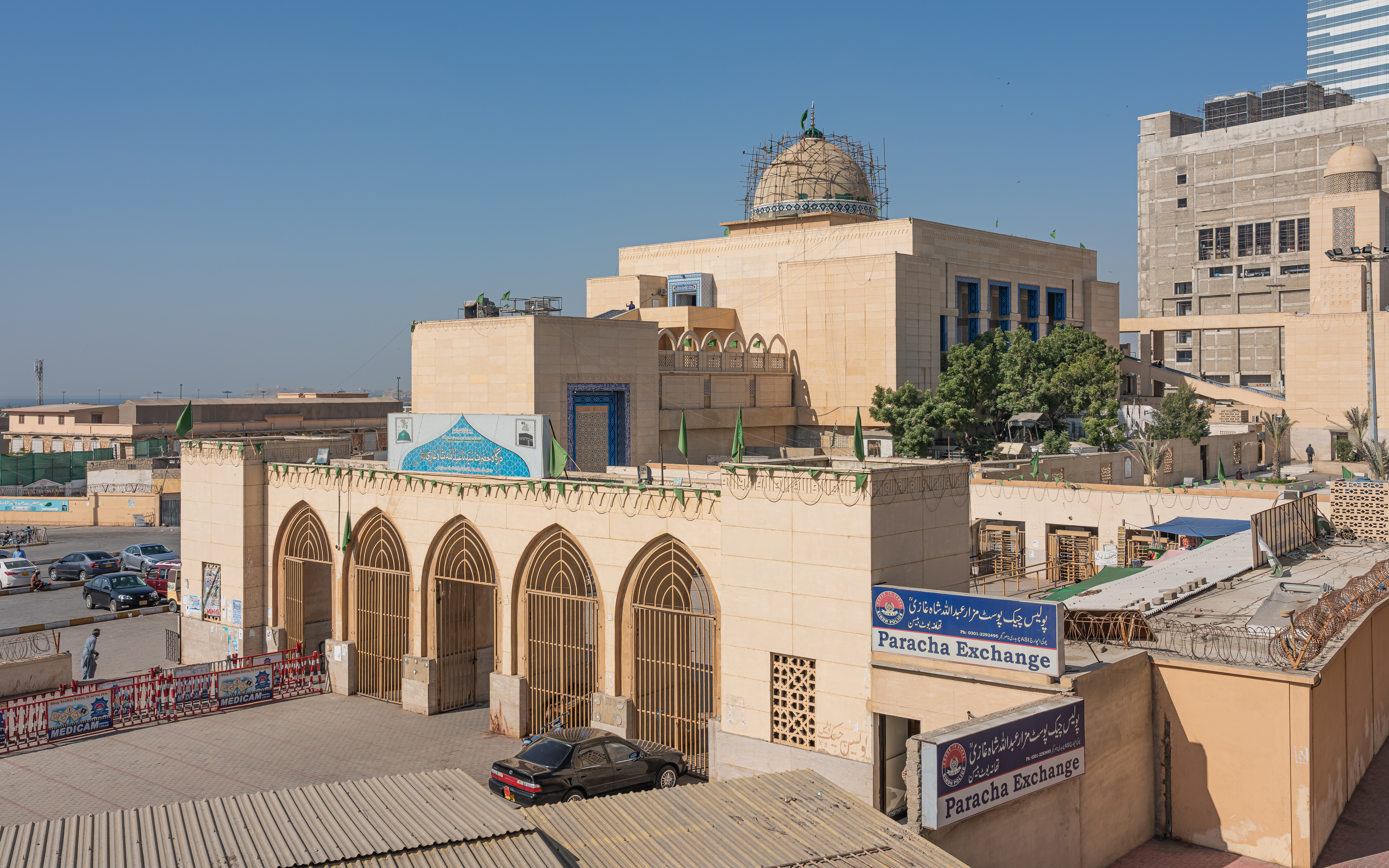 Abdullah Shah Ghazi Mausoleum in Karachi, Pakistan